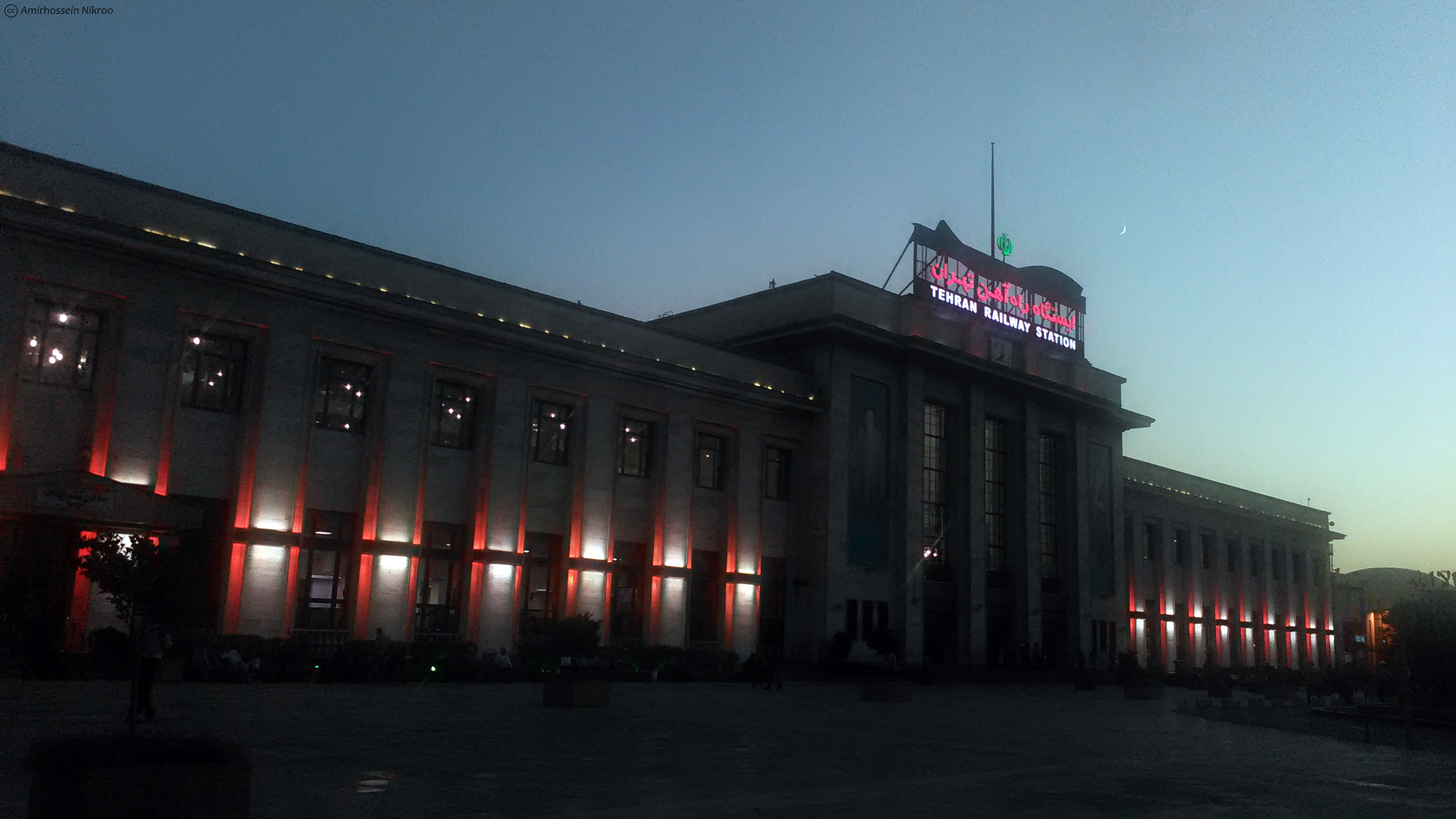 Railway Station of Tehran